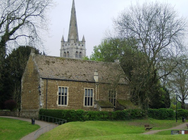 Approaching Oakham A footpath across a park approaches Oakham from the north east. One of the buildings of Oakham School in the foreground and the spire of All Saints parish church behind.